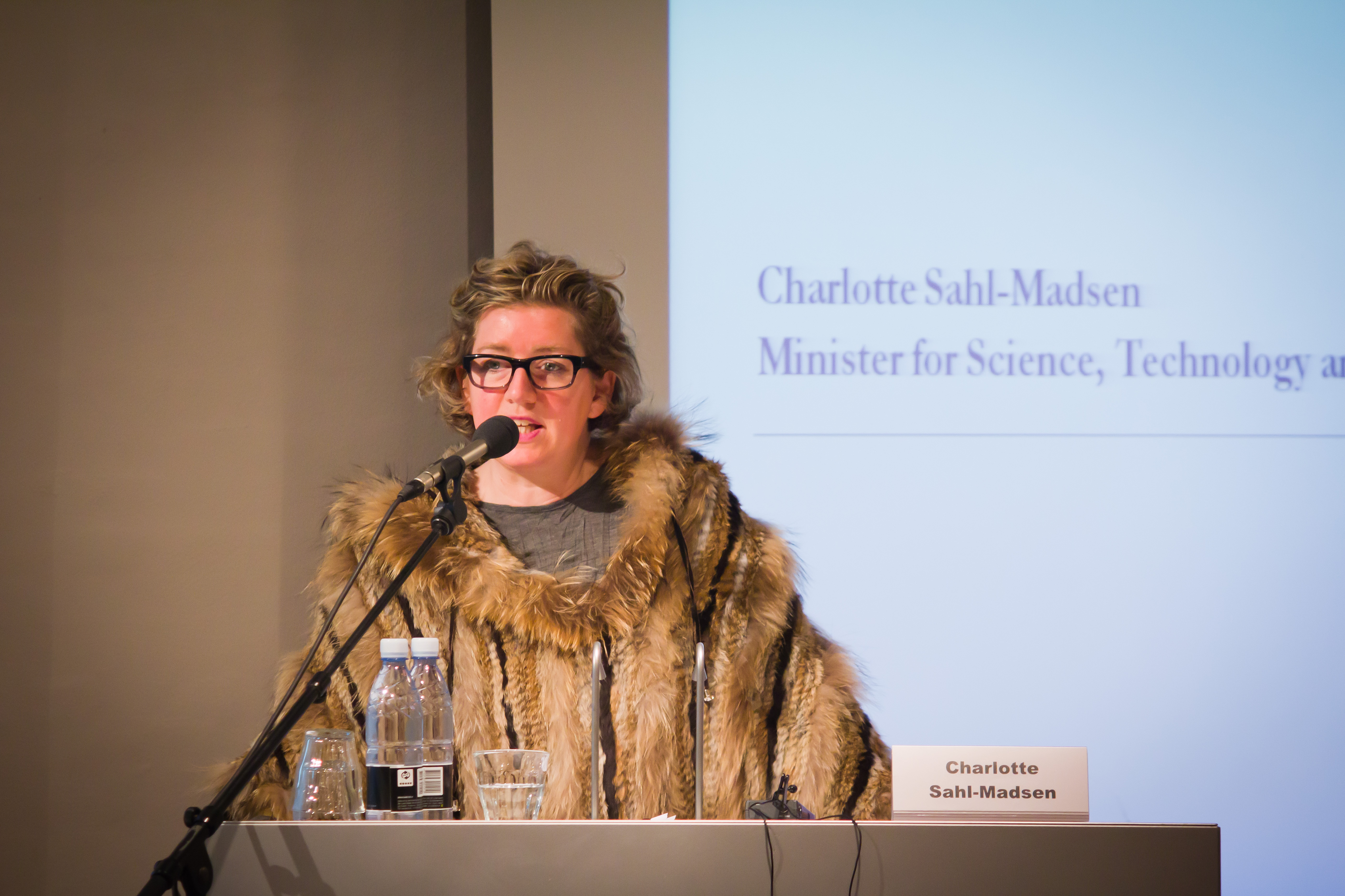 Charlotte Sahl-Madsen, Minister for Science, Technology and Innovation, Denmark